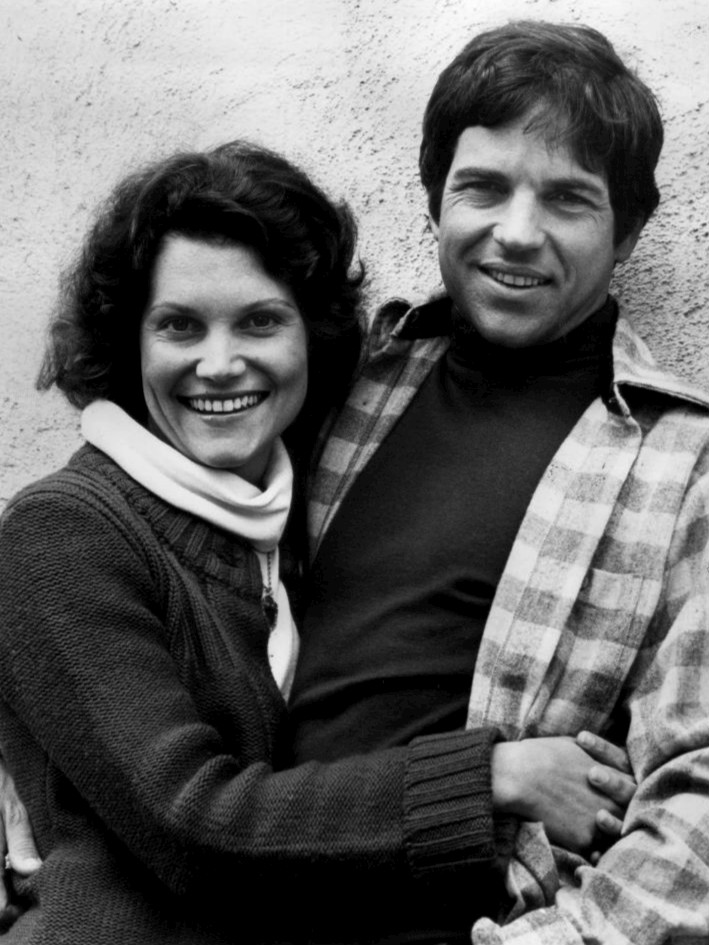 Photo of Frances Lee McCain and Tony Bill from the 1977 television miniseries "Washington:Behind Closed Doors".